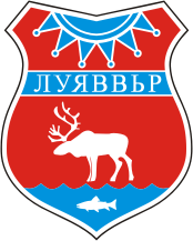 Lovozero (Murmansk oblast), coat of arms (1989). The name of the village Луя̄ввьр (Lujāvv'r) is written in Kildin Sami (but without the length sign Macron on the letter А.